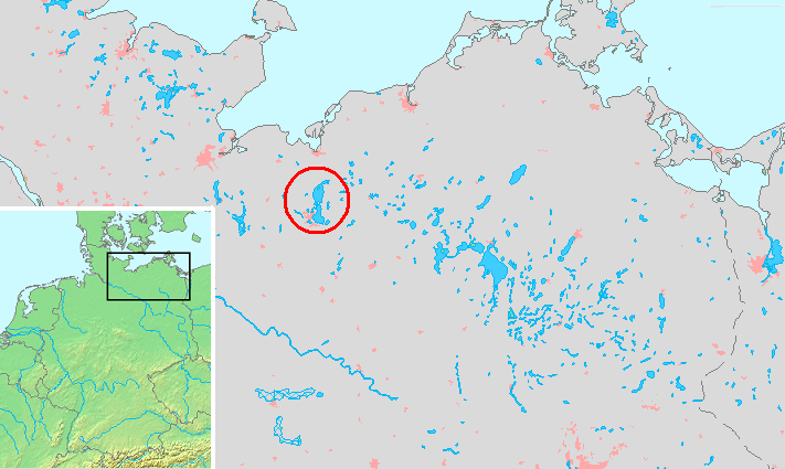 Locator maps of lakes in Germany : Location Schweriner See.PNG